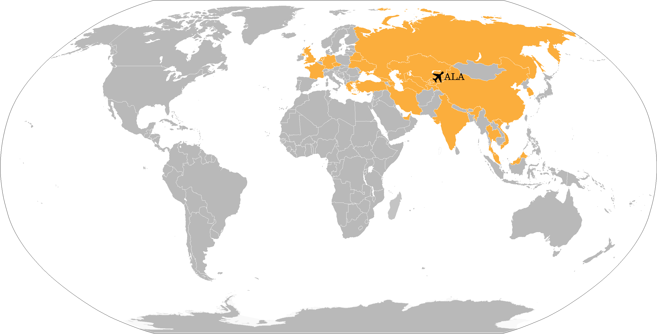 A map of all countries served as destinations of Almaty International Airport (AIA).